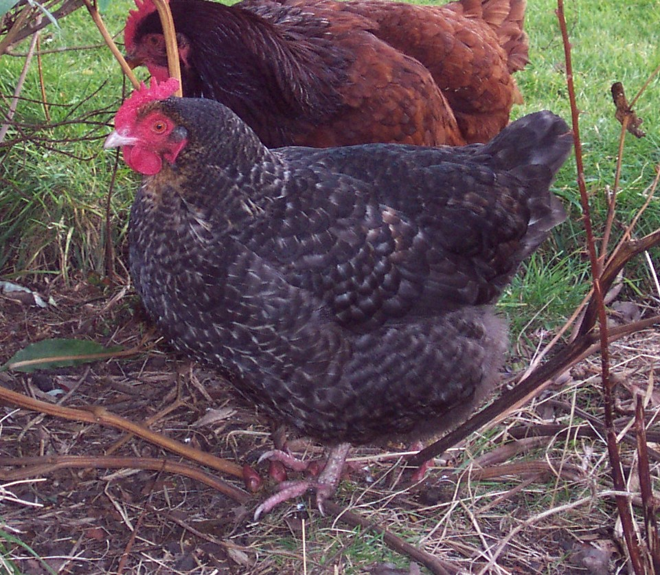 A Marans hen, with a Rhode Island Red hen in the background